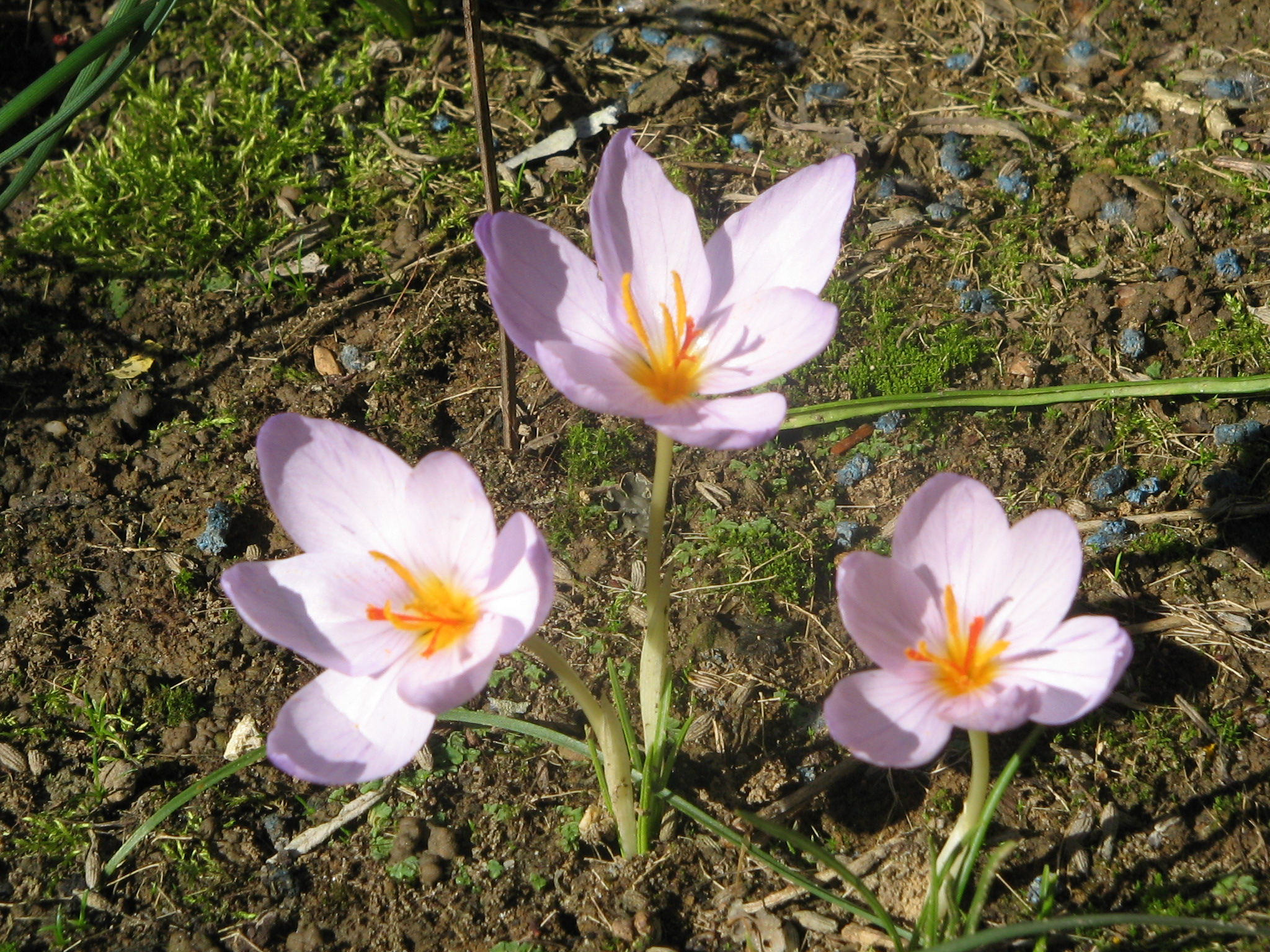 Crocus longiflorus in the author's garden